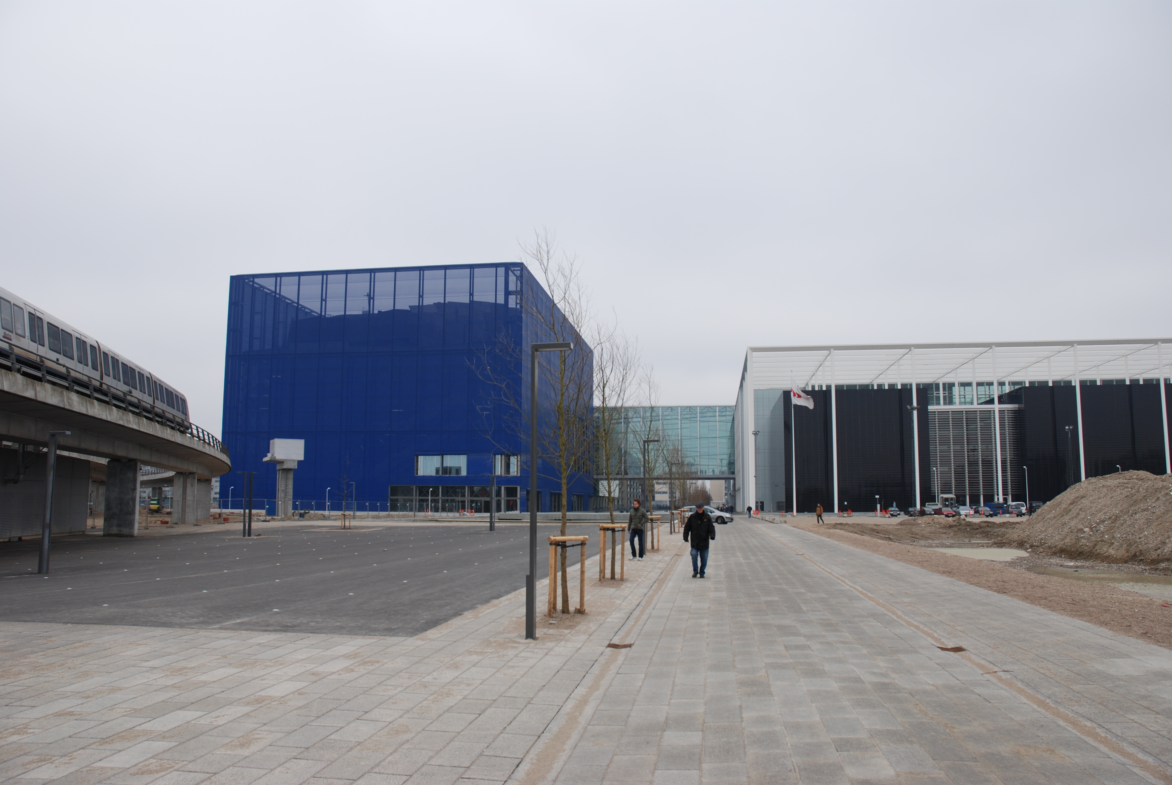 Copenhagen Concert Hall, by Jean Nouvel